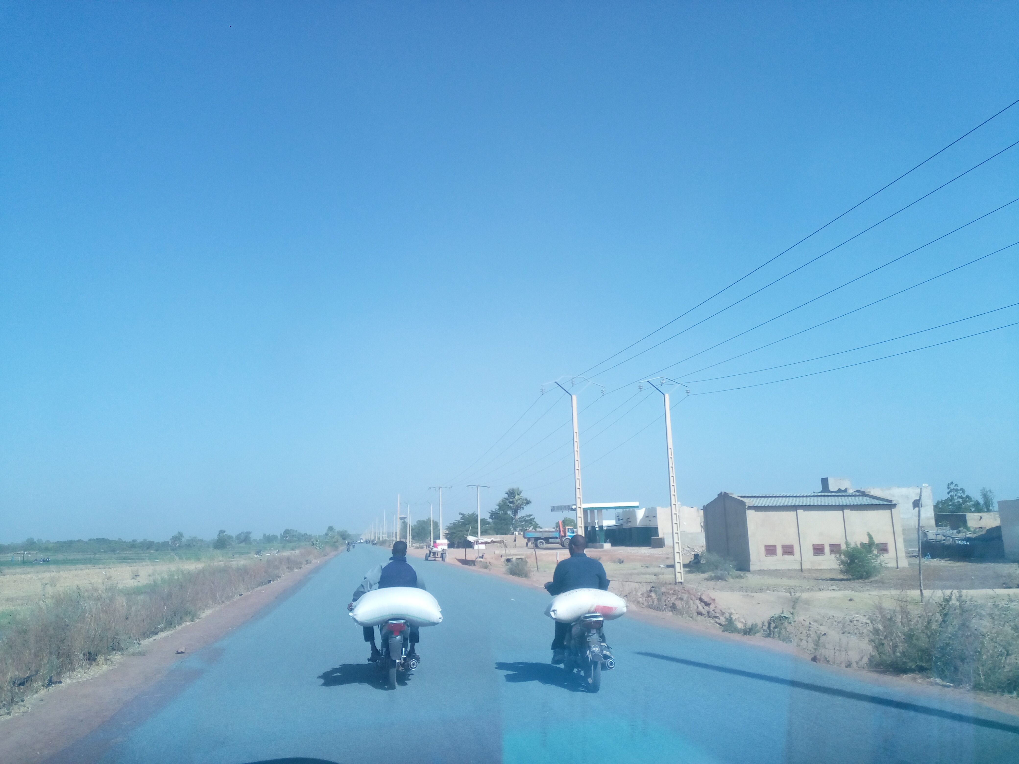 Smallholder farmers of mali transporting their paddies to the rice mill in Daibaly for processing, this is the part of their harvest they have set aside for value addition or domestic consumption This is an image with the theme "Africa on the Move or Transport" from: Mali